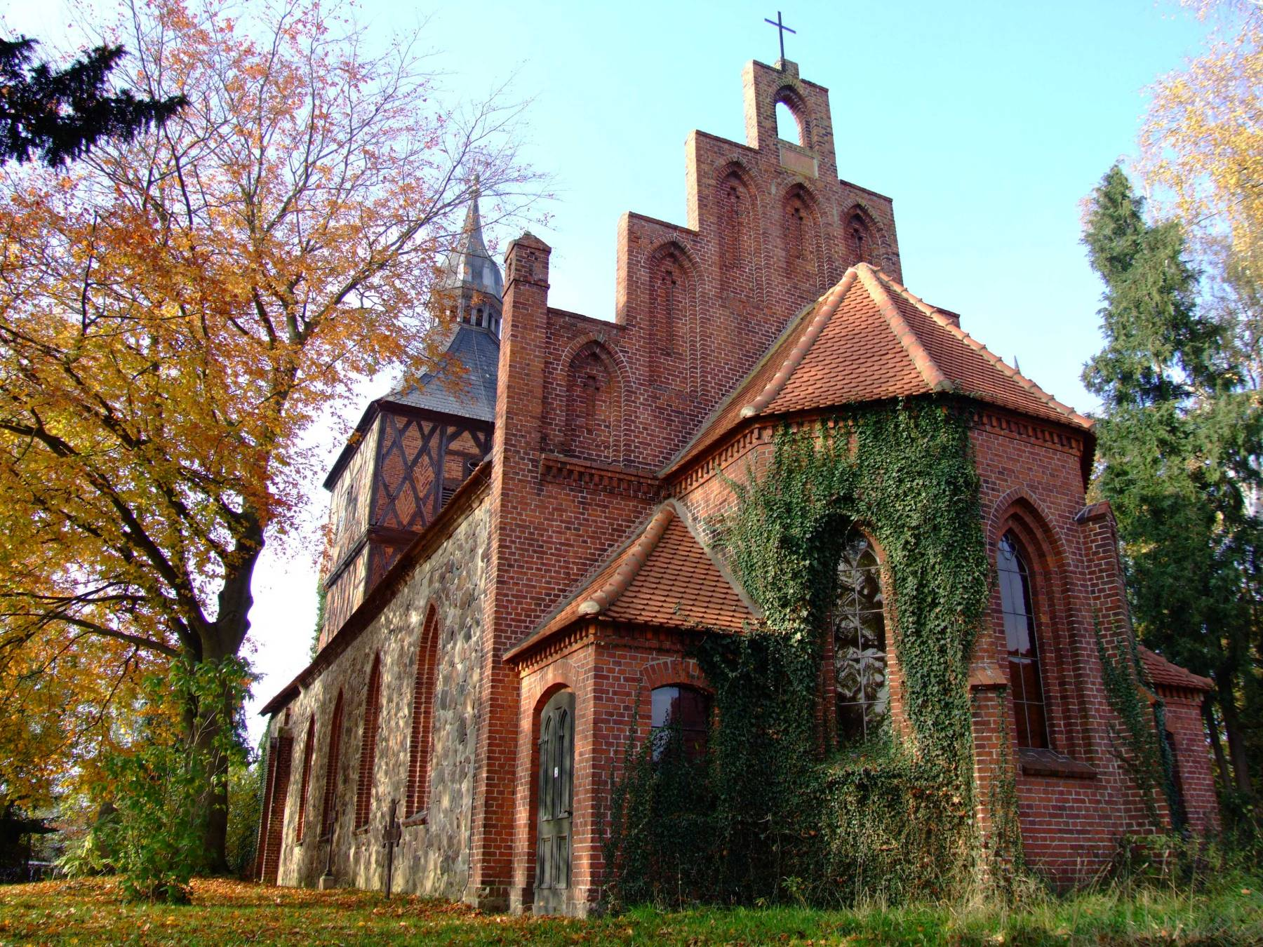 Church in Premslin, district Prignitz, Brandenburg, Germany